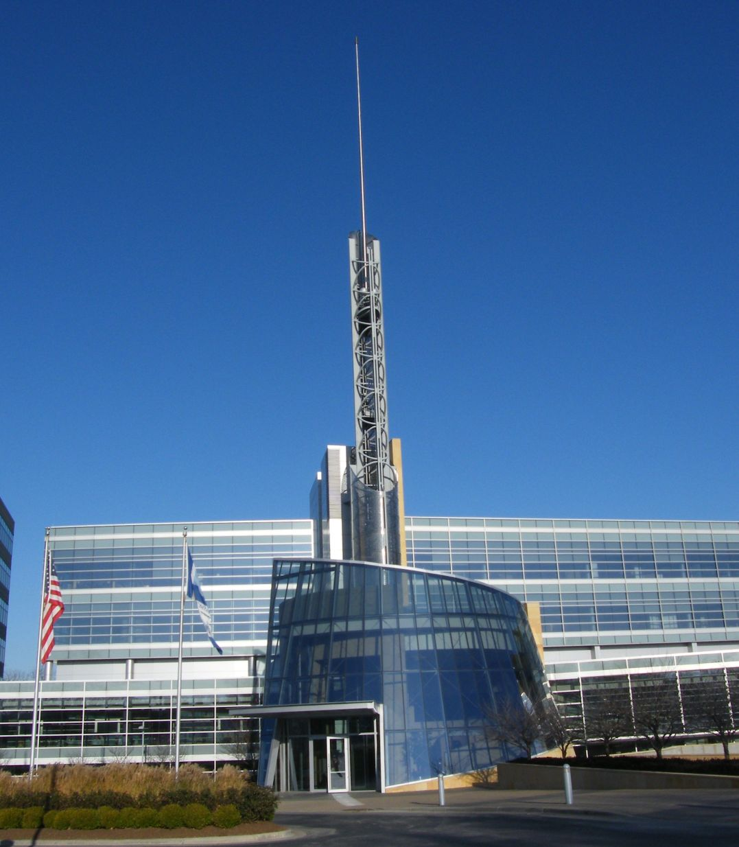 Cerner world headquarters in North Kansas City, Missouri